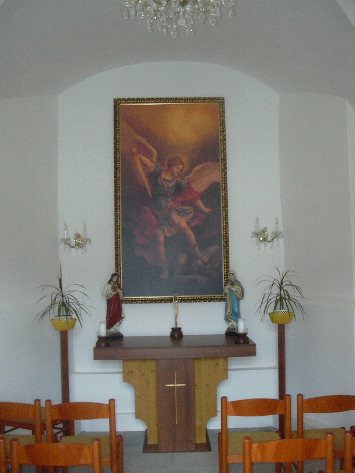 Interior of St Michael chapel in Brňany (a part of Vyškov town, Czech Republic)